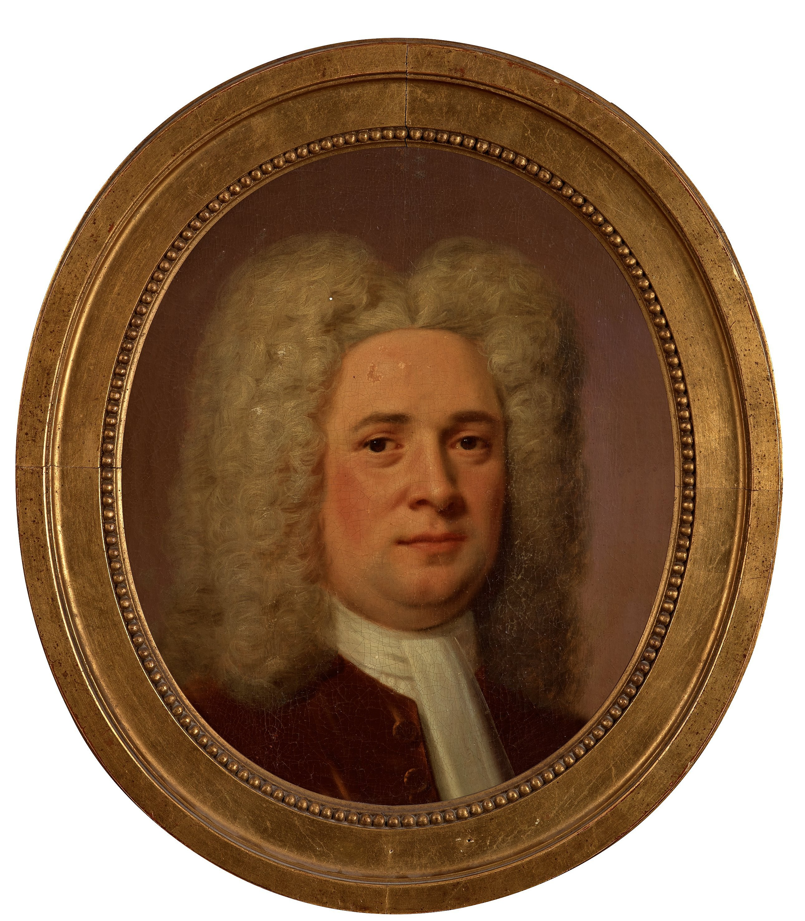 The honourable Johan Rosenadler (1664-1743). Painted by Johan Henrik Scheffel (1690-1781)